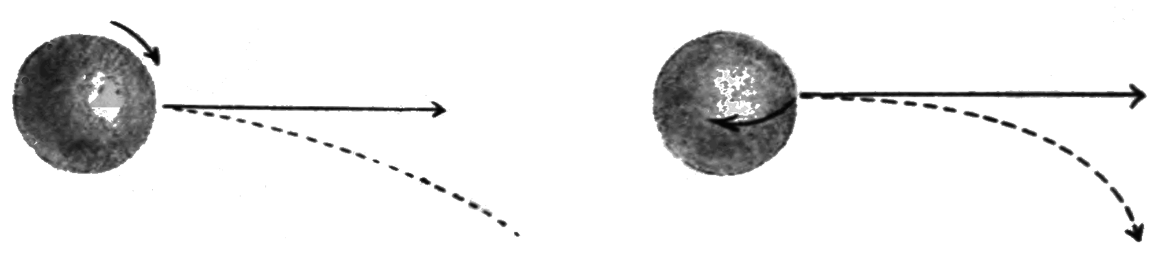 Dynamics of the golf ball 3